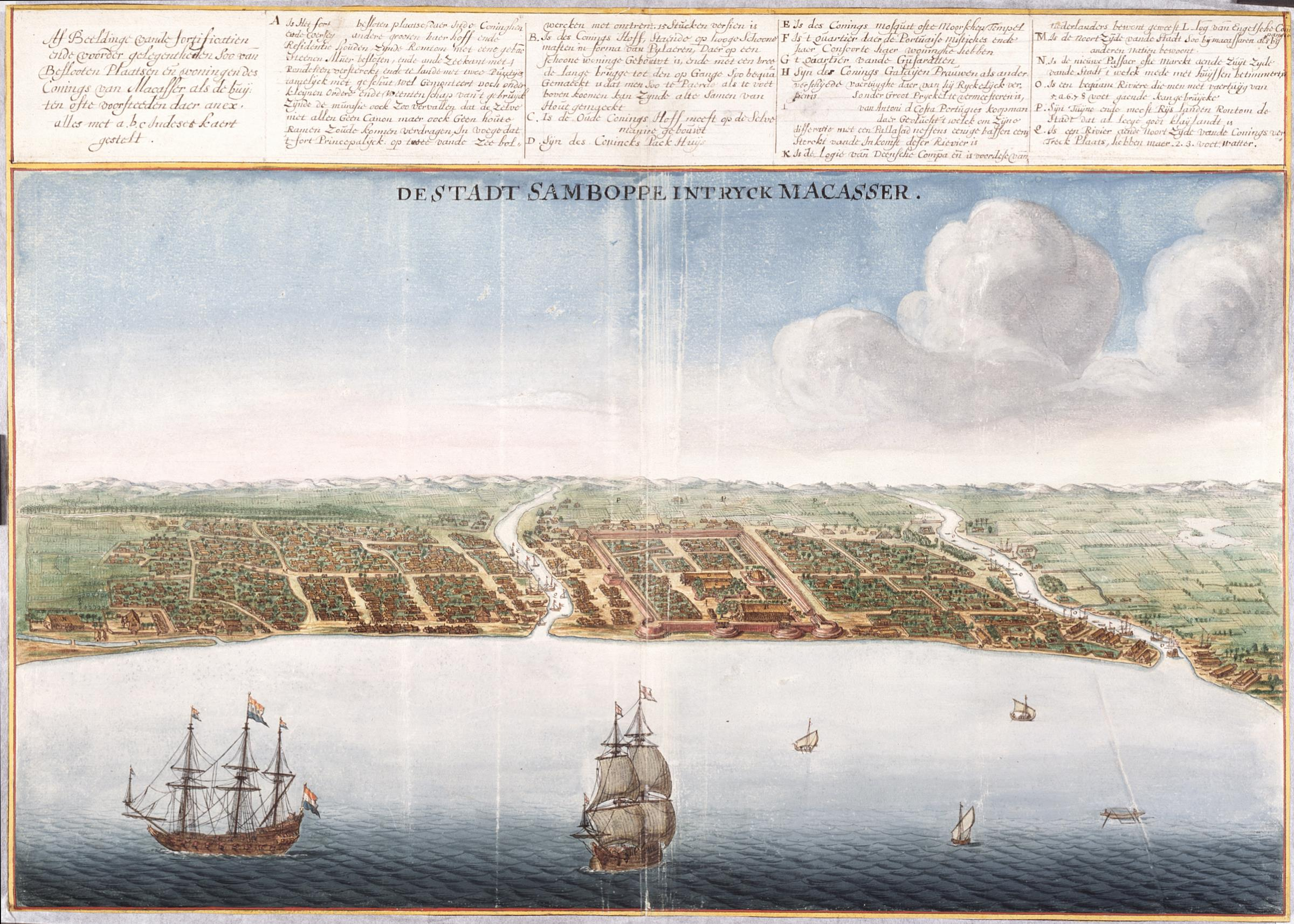 Title in the Leupe catalogue (NA): Gezicht in vogelvlucht op ,,de stadt Samboppe int rijck Macassar van de zeezijde. Corresponds in its entirety with the illustration rendered in Valentijn III, 2nd part, page 138. Key on the chart. Top left the inscription: Af Beeldinge vande fortificatien ende voorder gelegentheden soo van Beslooten Plaatsen En woningen des Conings van Macasser als de buijten ofte voorsteeden daer anex alles met a.b.c. Indesec kaart gestelt. Alongside this inscription is the key, which runs from A-Q. In the foreground several vessels are depicted; in the centre houses and right of centre a fort. In the background are paddy fields and mountains. Under the key, the following inscription: De Stadt Samboppe int Rijck Macasser. Cf. Koninklijke Bibliotheek, The Hague, inv. nr. 693 C 6 part. XV, op. p. 135, Rijksmuseum, Amsterdam, inv. nr. RP-P-1908-2309 and Scheepvaartmuseum, Amsterdam, inv. nr. SNSM_b0032(109)06[kaart155].